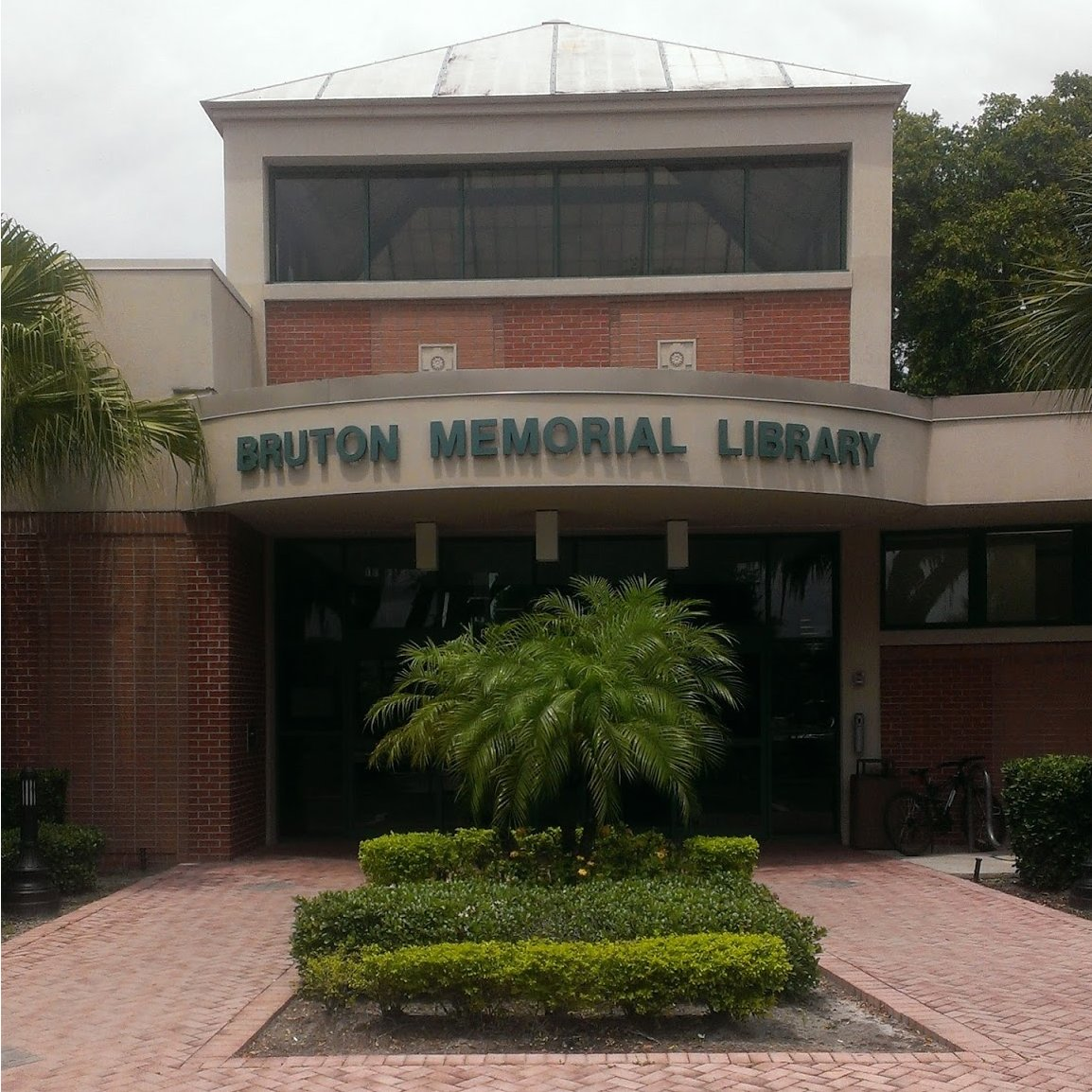 Entrance to Bruton Memorial Library, Plant City, Florida, as seen from McLendon Street as of April 2013.